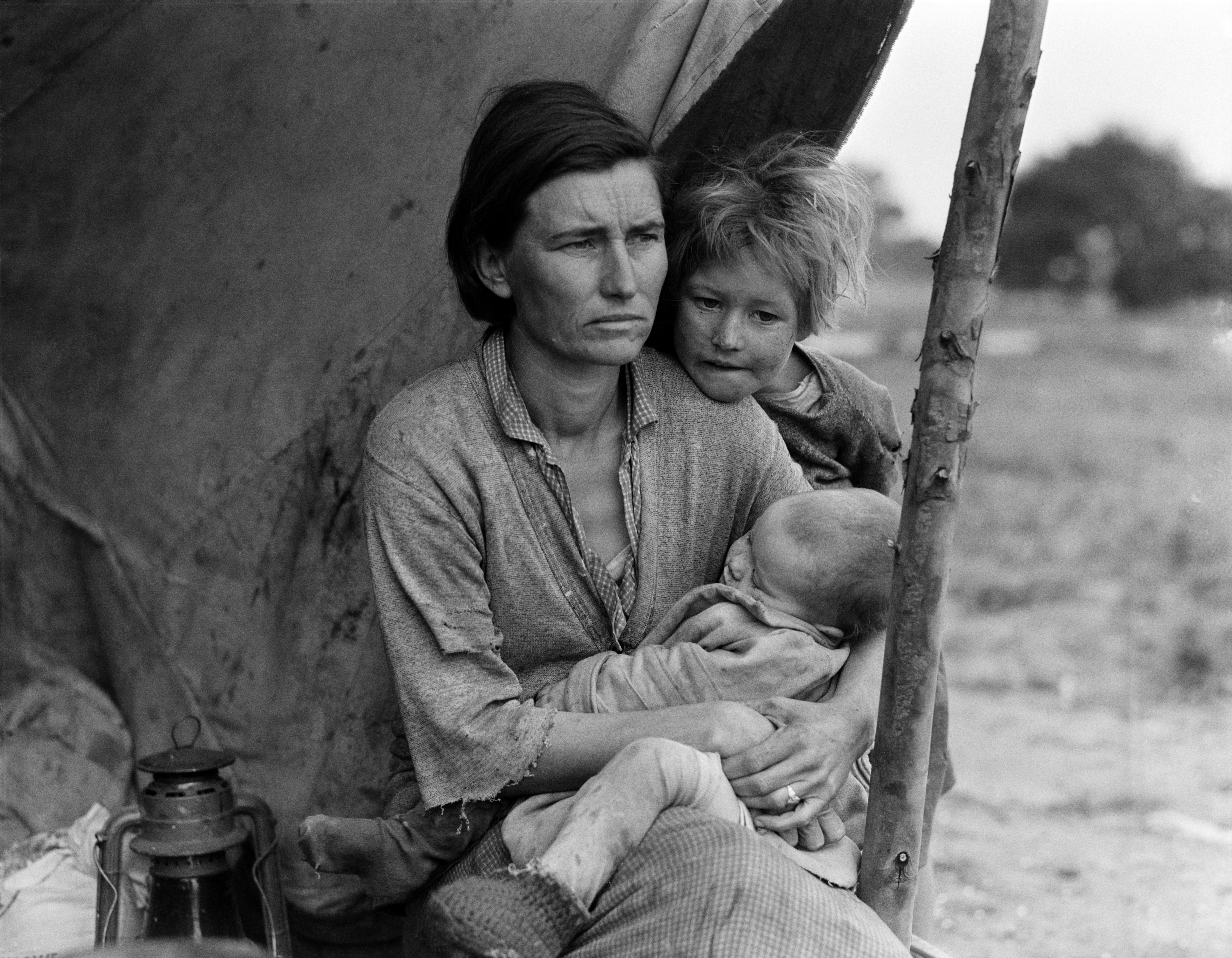 Photograph shows Florence [Owens] Thompson with two of her children as part of the "Migrant Mother" series. For background information, see "Dorothea Lange's Migrant Mother' photographs ..."